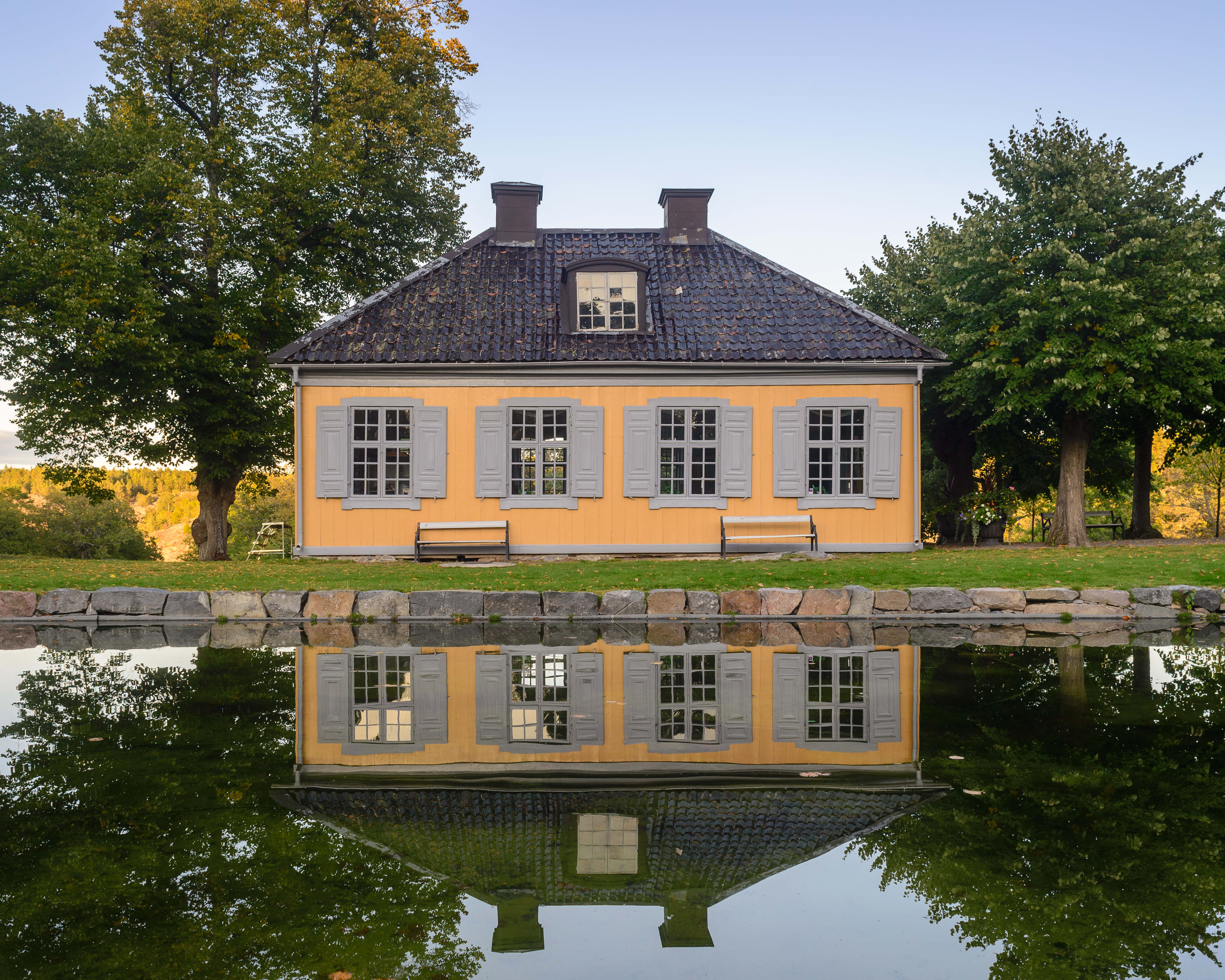 Biljardflygeln (the Billiard wing) at Stora Nyckelviken. The Billiard wing was built in the 1760s by Louis Auguste Le Tonnelier de Breteuil, owner of Stora Nyckelviken and French ambassador in Stockholm in the 1760s.